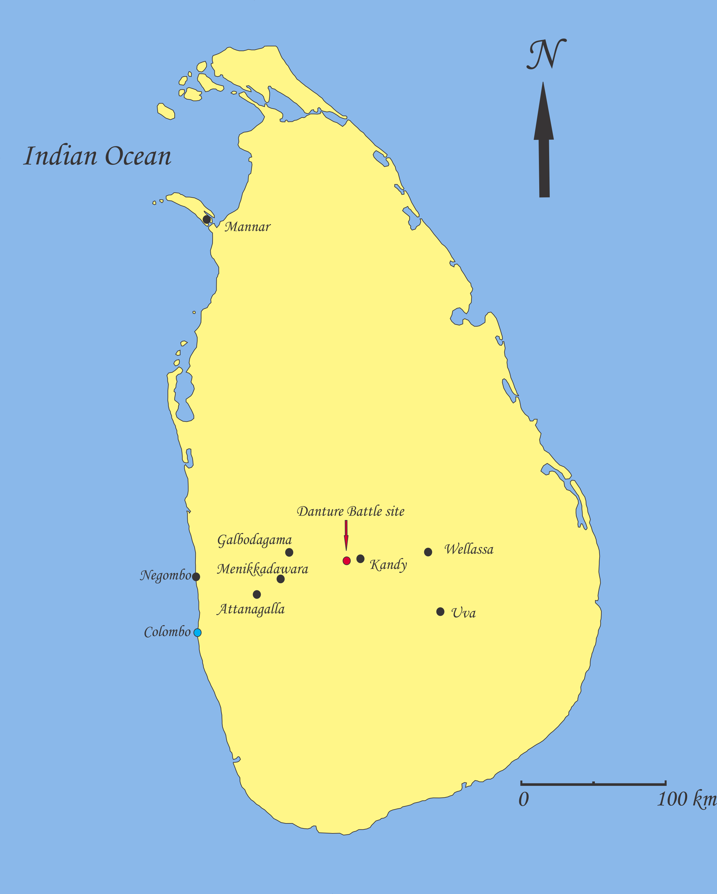 Important locations of campaign of Danture in Sri Lanka Map